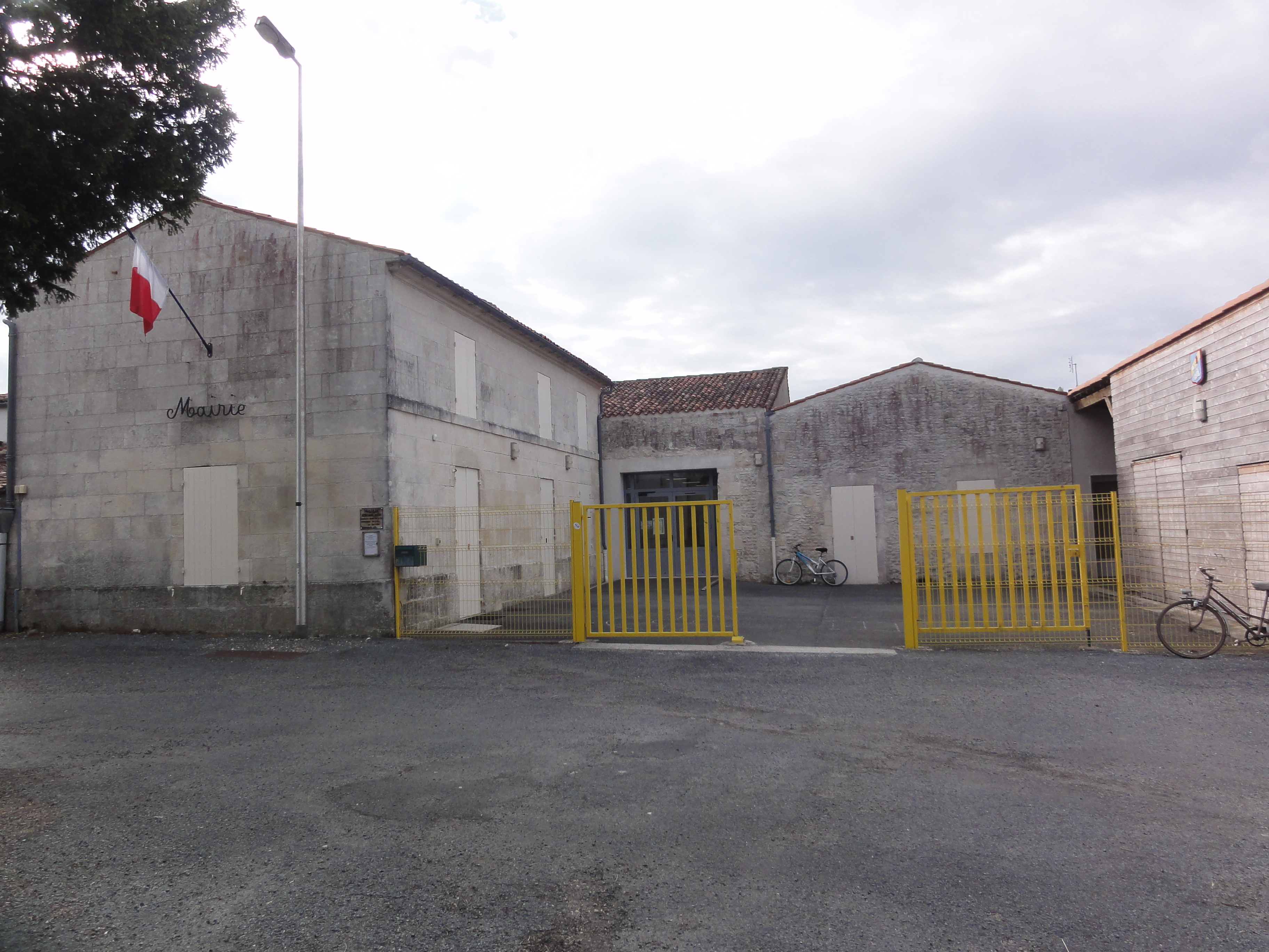 Préguillac (Charente-Maritime) mairie